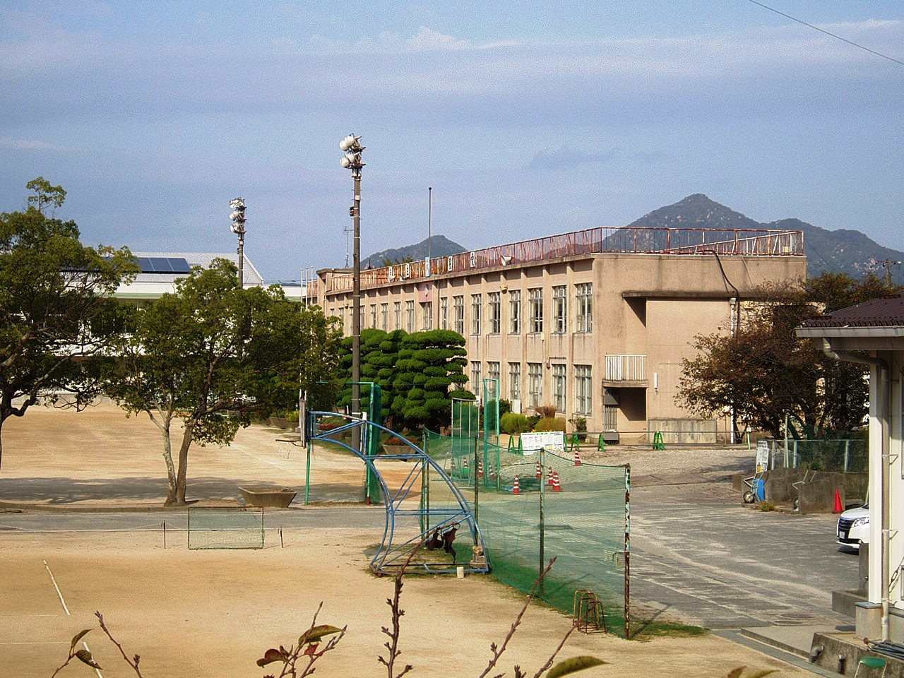 Hofu City Kuwayama Junior High School viewed from east. Located in Hofu, Yamaguchi, Japan.